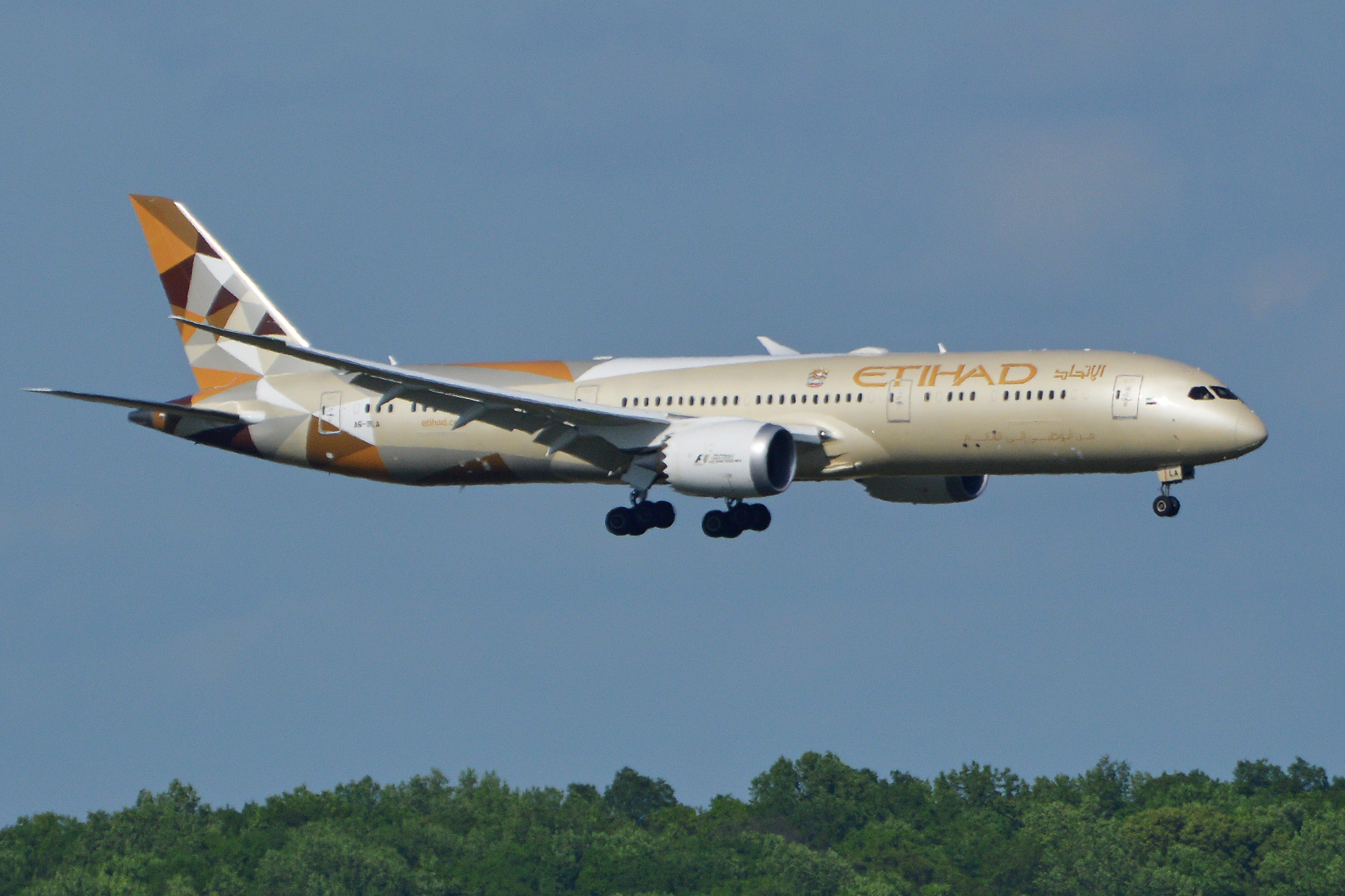 c/n 39646, l/n 229. Built 2014, delivered January 2015 Washington Dulles Airport, Virginia, USA. 09-6-2015 This is a bit hazy, but is my first 787-9 photo so I've included it anyway